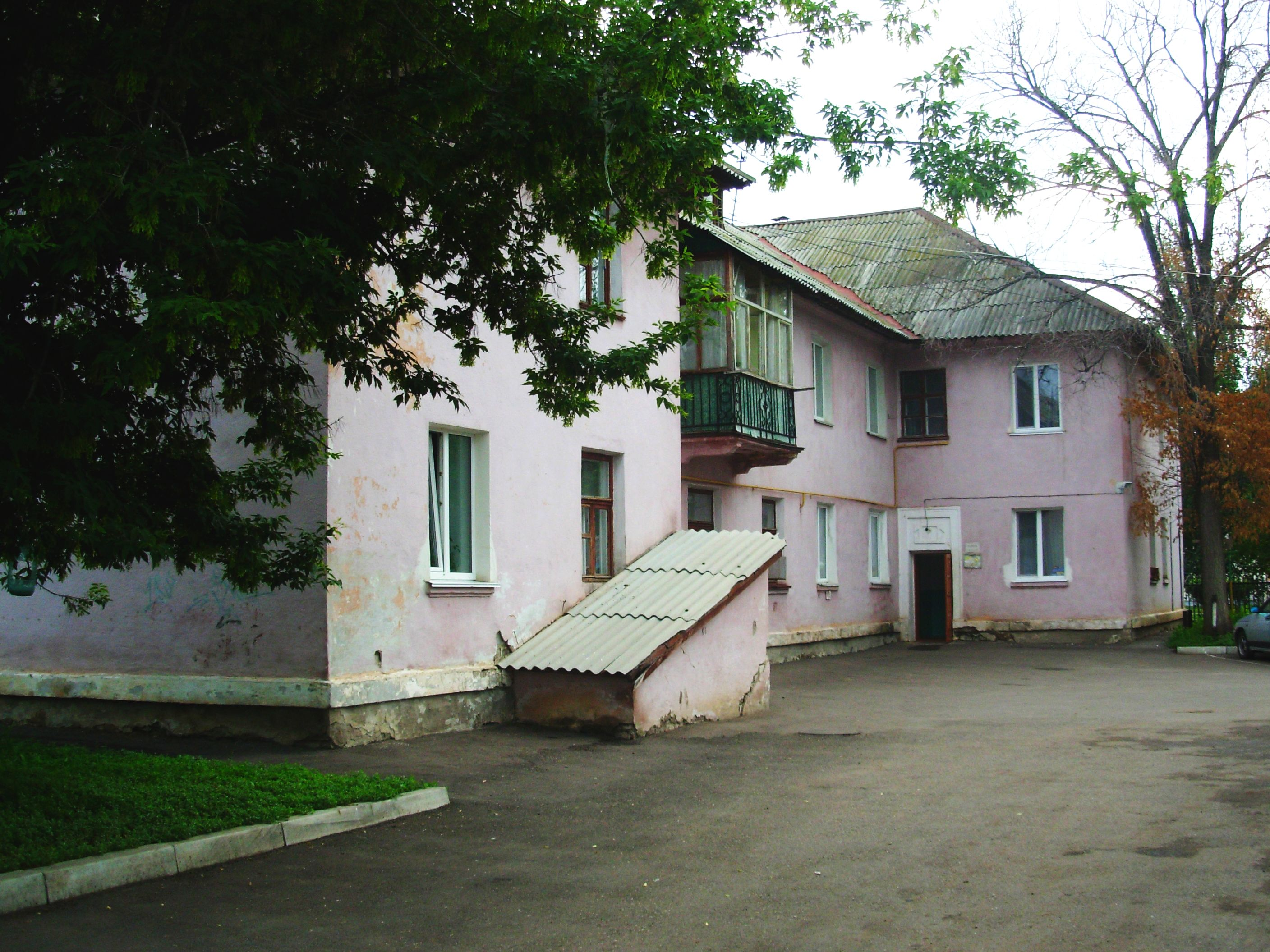 old muzical building